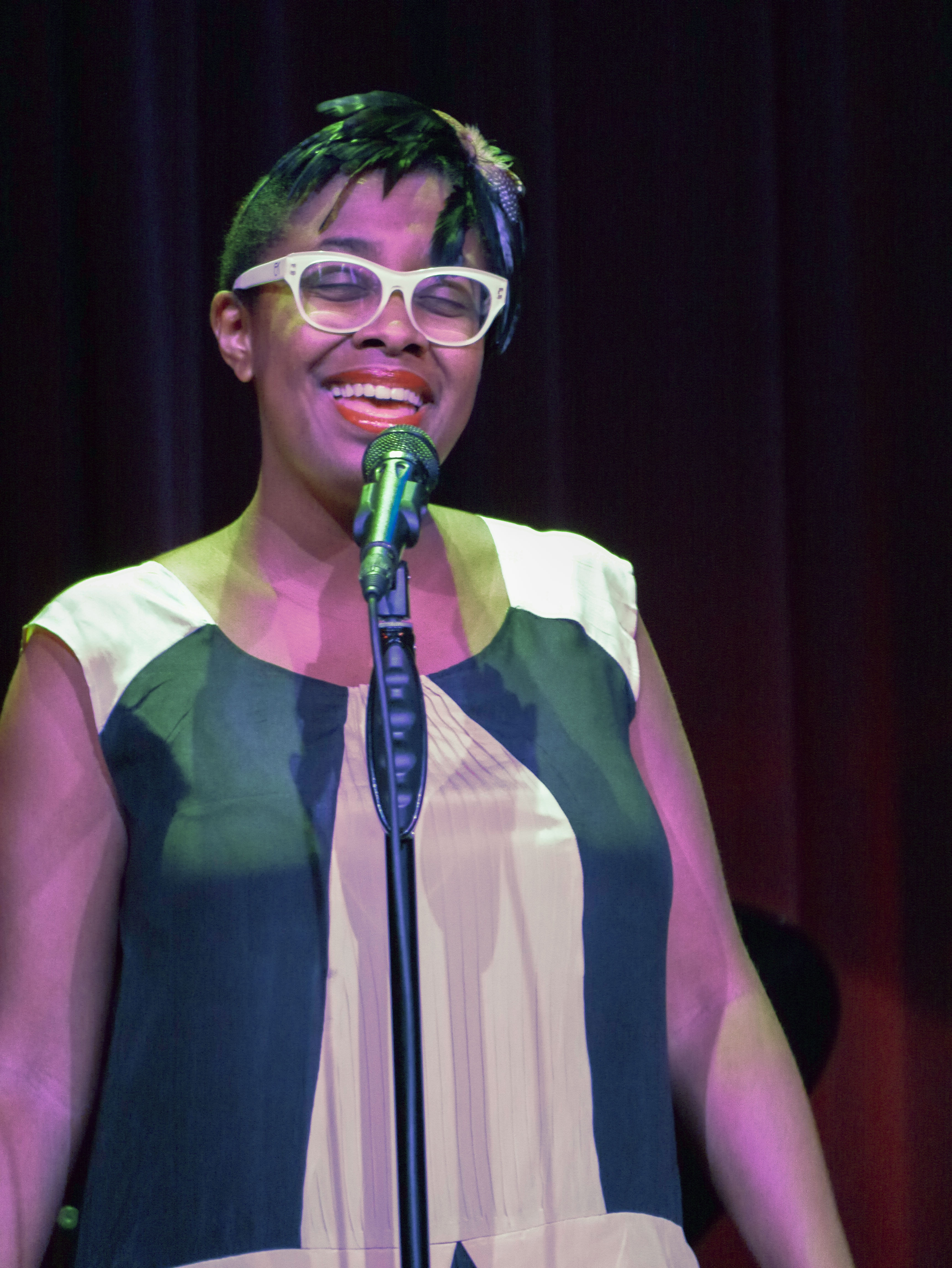 Cecile McLorin Salvant performs in San Francisco.